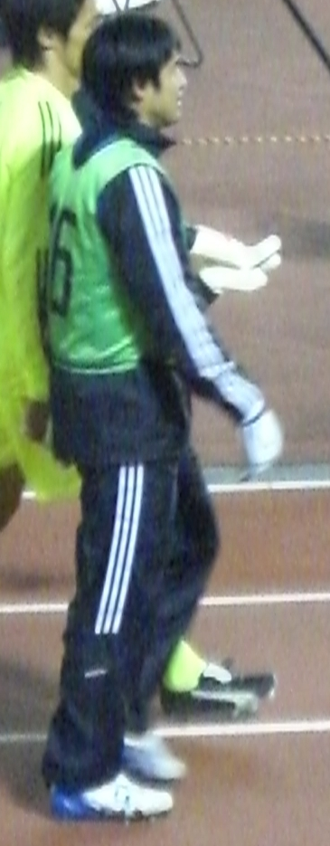 Yoshikatsu Kawaguchi is japanese football player.